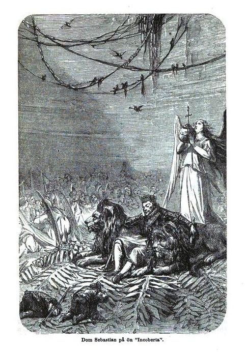 King Sebastian of Portugal on the mythical island Incoberta waiting for his retuen. Illustration from: Richard Andree: Robinsonader frȧn alla verldsdelar.' Stockholm 1871, p. 30ff.